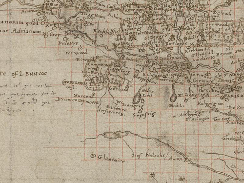 Ponts Map of Cumbernauld Area